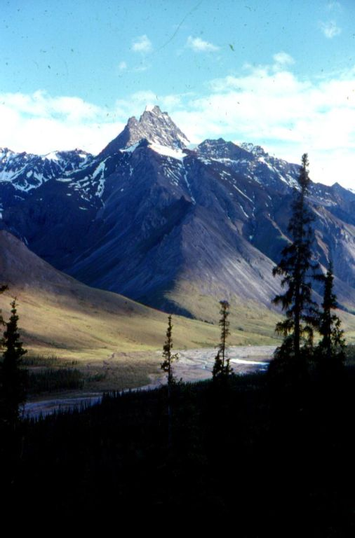 Mount Doonerak, one of the highest mountains in the Alaskan Brooks Range. Steven Beasley